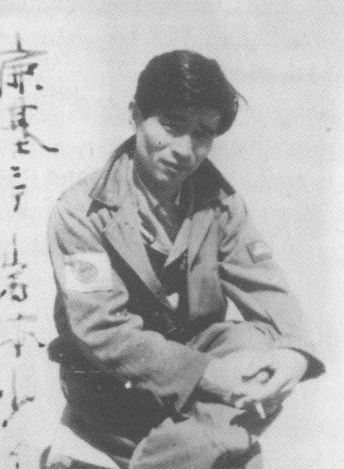 Tetsuzo Iwamoto, the Imperial Japanese Navy's top fighter ace of World War II.